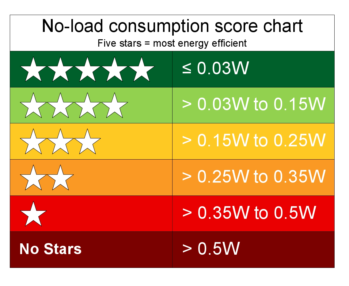 Score chart showing the star rating bands for no-load power consumption in mobile phone chargers. This voluntary standard was introduced in November 2008.